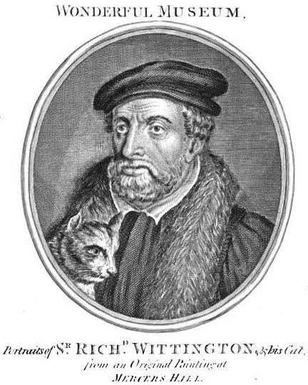 Portraits of Sir Richard Whittington, & his Cat from an original painting at Mercers Hall. 19th Century engraving printed for Alex Hogg and Co, London. Though missing the signature, this otherwise appears to be an exact replica of the etching by Guillaume Philippe Benoist (a 1766 print is shown on web at at National Portrait Gallery)[1]